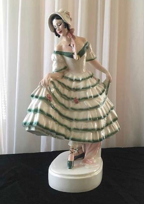 Keramos Tänzerin